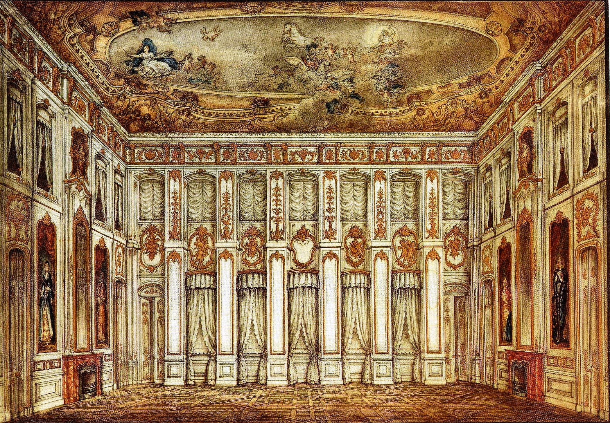 Festsaal des Palais Brühl 1876 in Dresden. Während der Zeit seiner Nutzung als Kupferstichsammlung der Königin Maria. Zeichnung von J.H.Aßmann